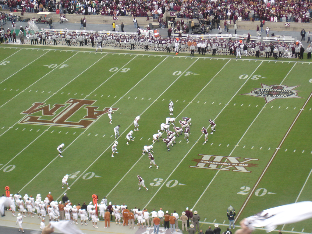 Texas Longhorns vs. Texas A&M Aggies college football game 2007 (Part of the Lone Star Showdown rivalry series)